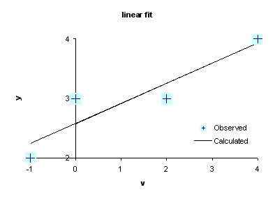 Straight line fit